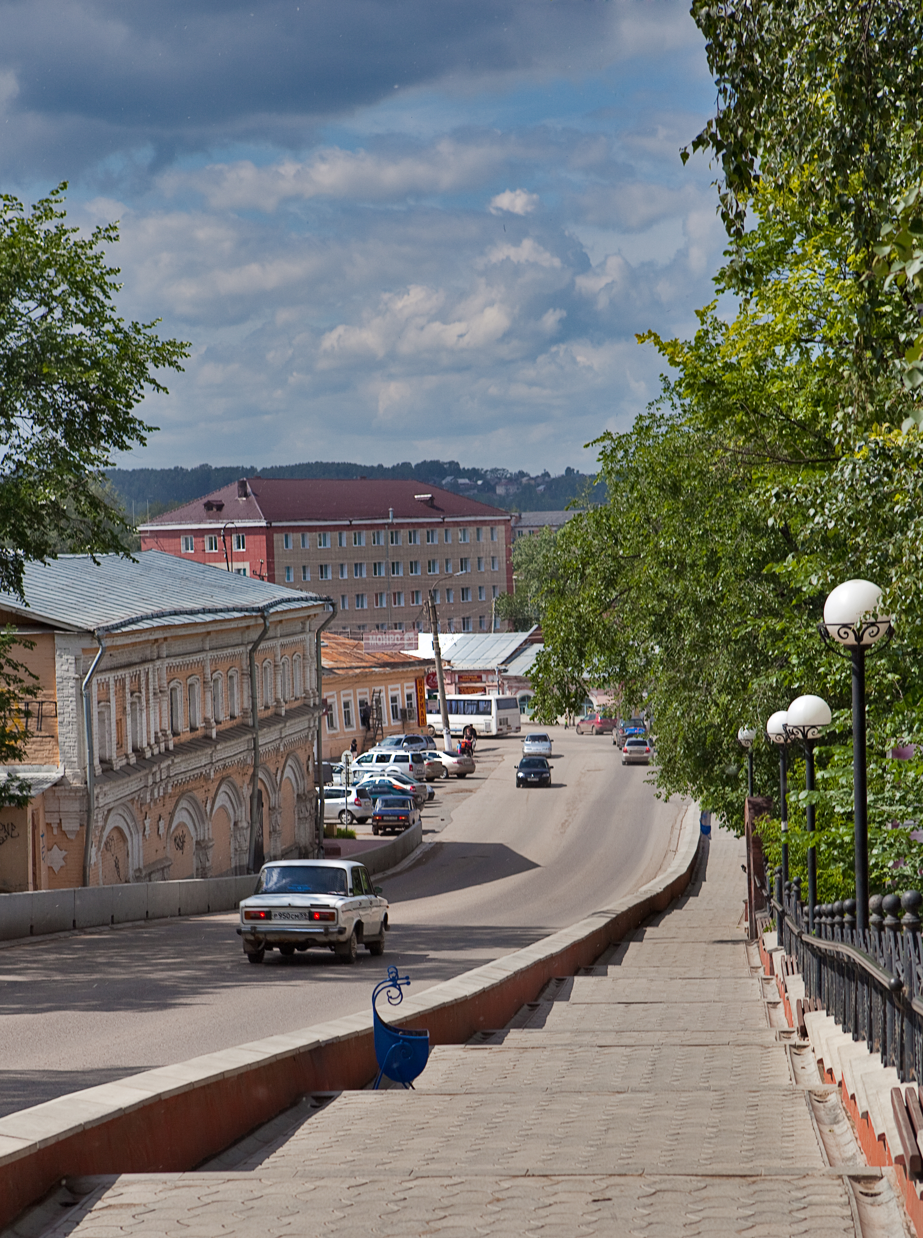 One oth Kungur city street, Russia